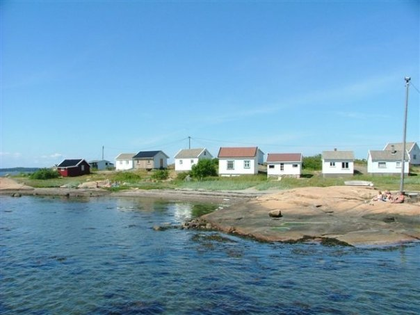 Photo, taken by me, of the cabins on Saltholmen peninsula in the village of Saltnes in Råde municipality, Østfold county, Norway.